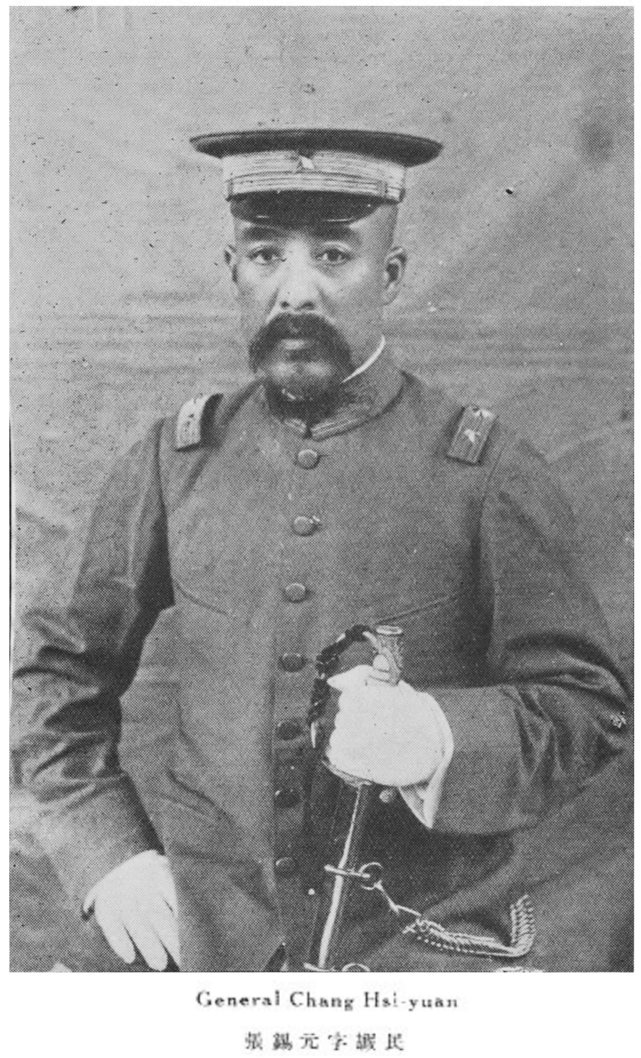 Zhang Xiyuan (born 1870)